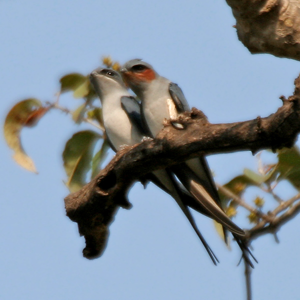 Crested Treeswift Hemiprocne coronata in Kawal Wildlife Sanctuary, Andhra Pradesh, India.